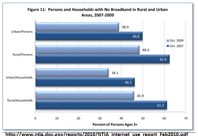 NTIA(2010) report